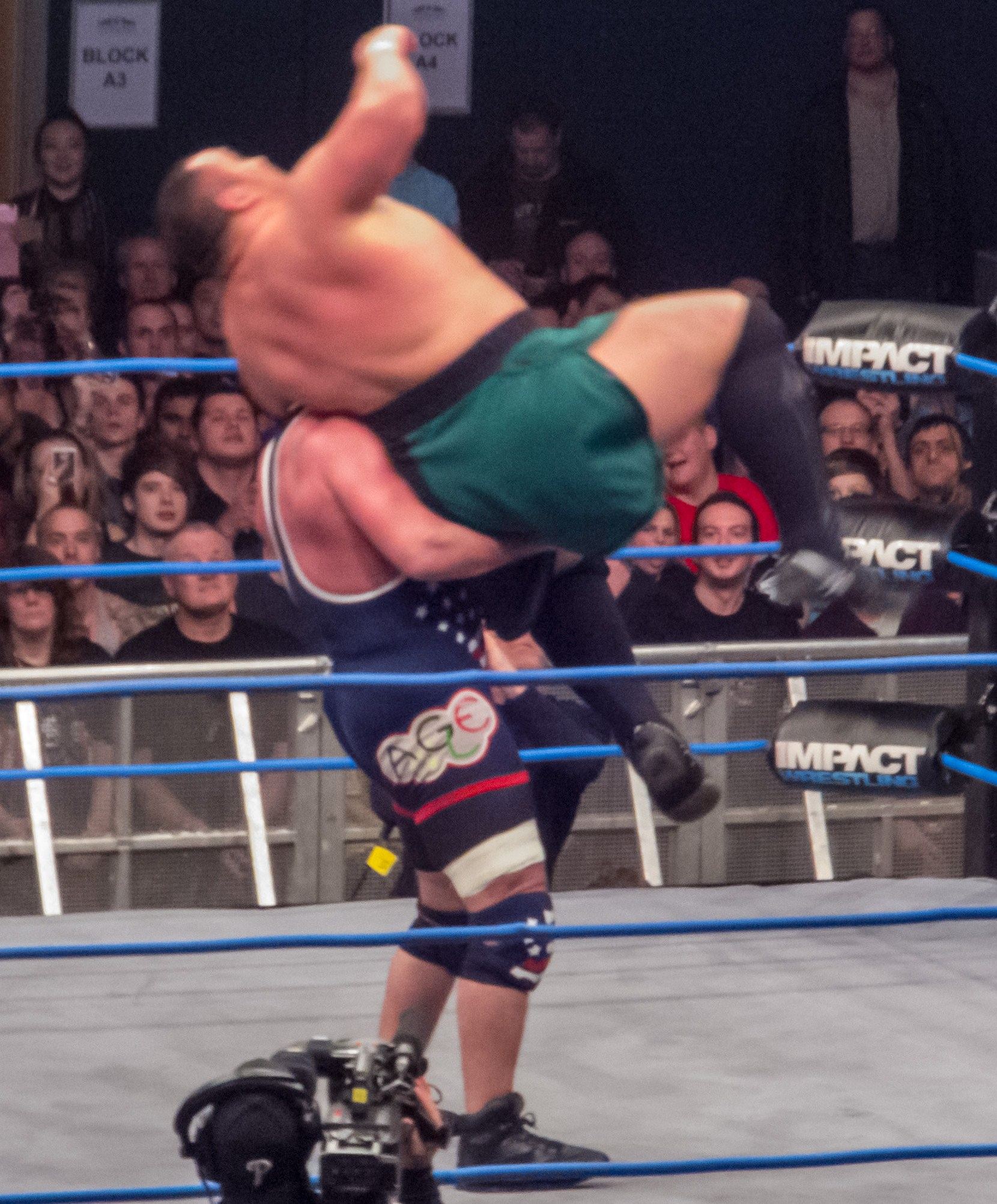 Kurt Angle Olympic Slams Samoa Joe at the Impact! TV Tapings in Wembley, England on January 26, 2013.